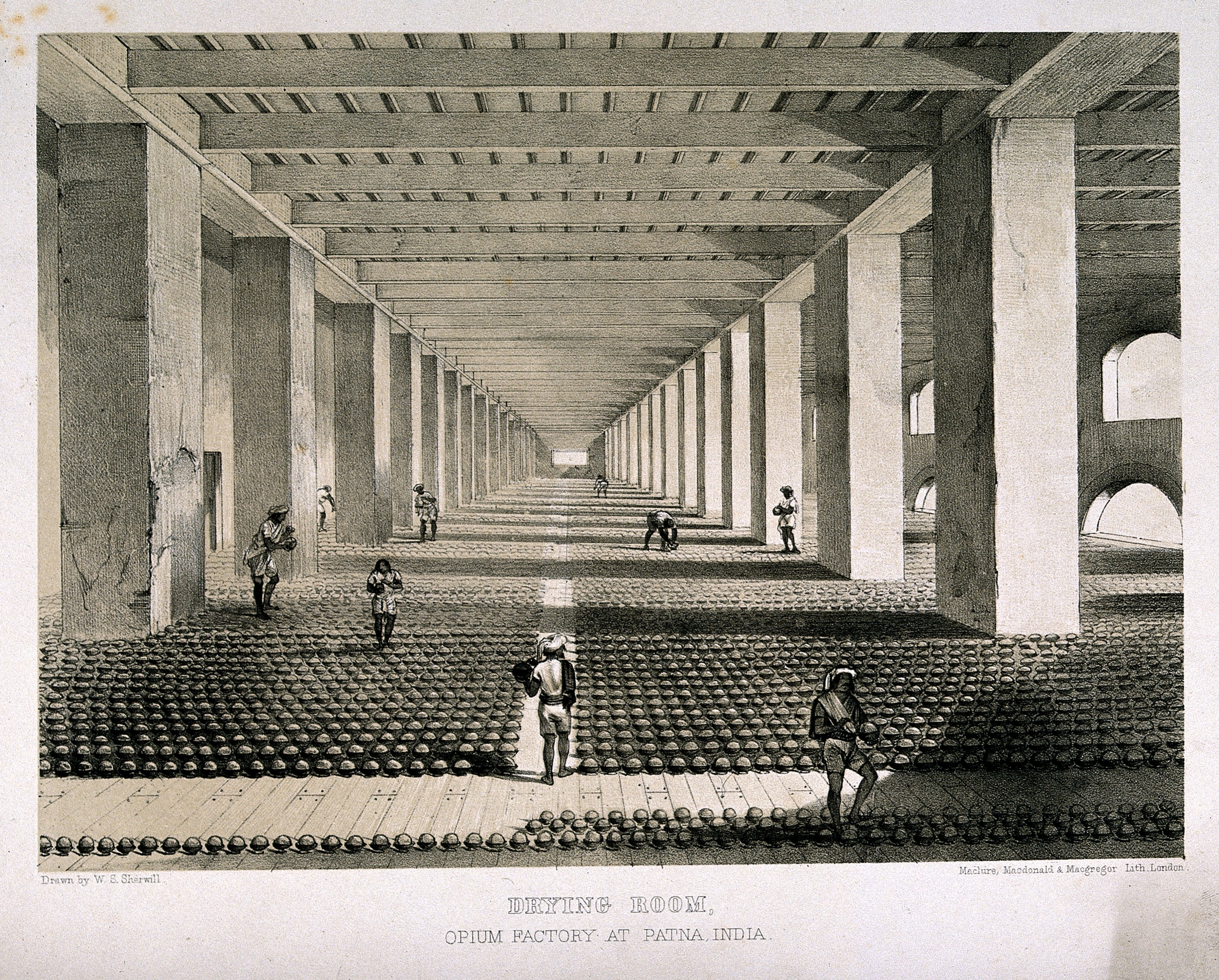 A busy drying room in the opium factory at Patna, India. Lithograph after W. S. Sherwill, c. 1850. Iconographic Collections Keywords: W. S. Sherwill